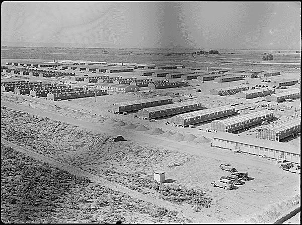 Eden, Idaho. A panorama view of the Minidoka War Relocation Authority center. This view, taken from the top of the water tower at the east end of the Center, shows partially completed barracks.